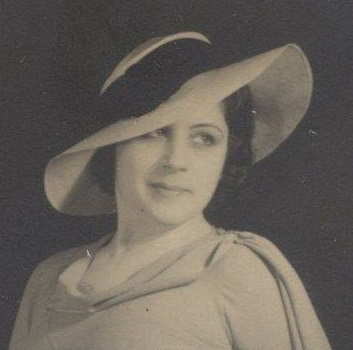 Lidia Desmond- actriz y cantante argentina